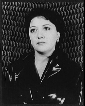 Actress Helen Morgan. Black and white portrait photograph taken by Carl Van Vechten, 1935.